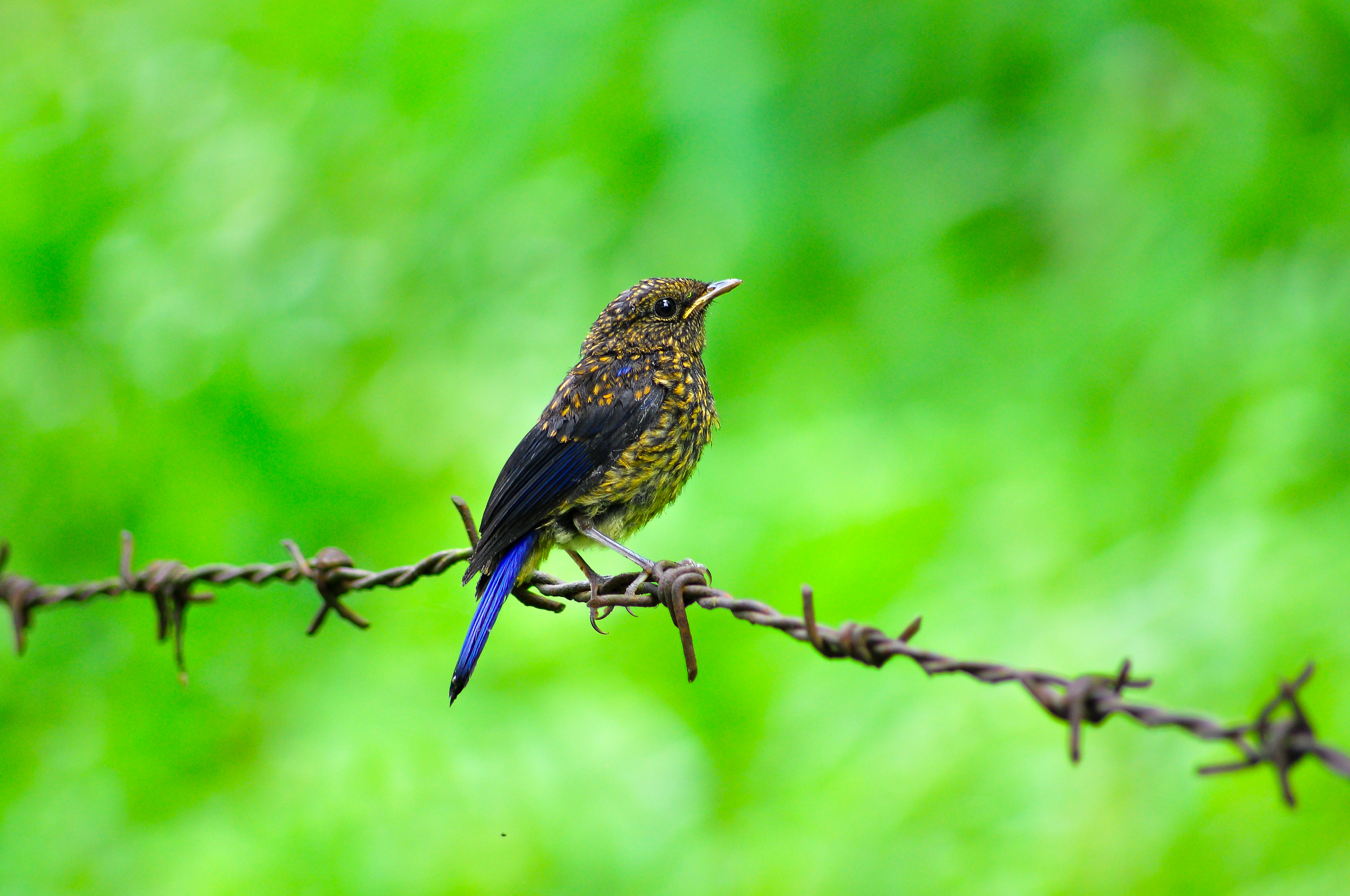 i love shooting birds but as i do not have super telephoto lens i had to try getting much closer to the bird as i can